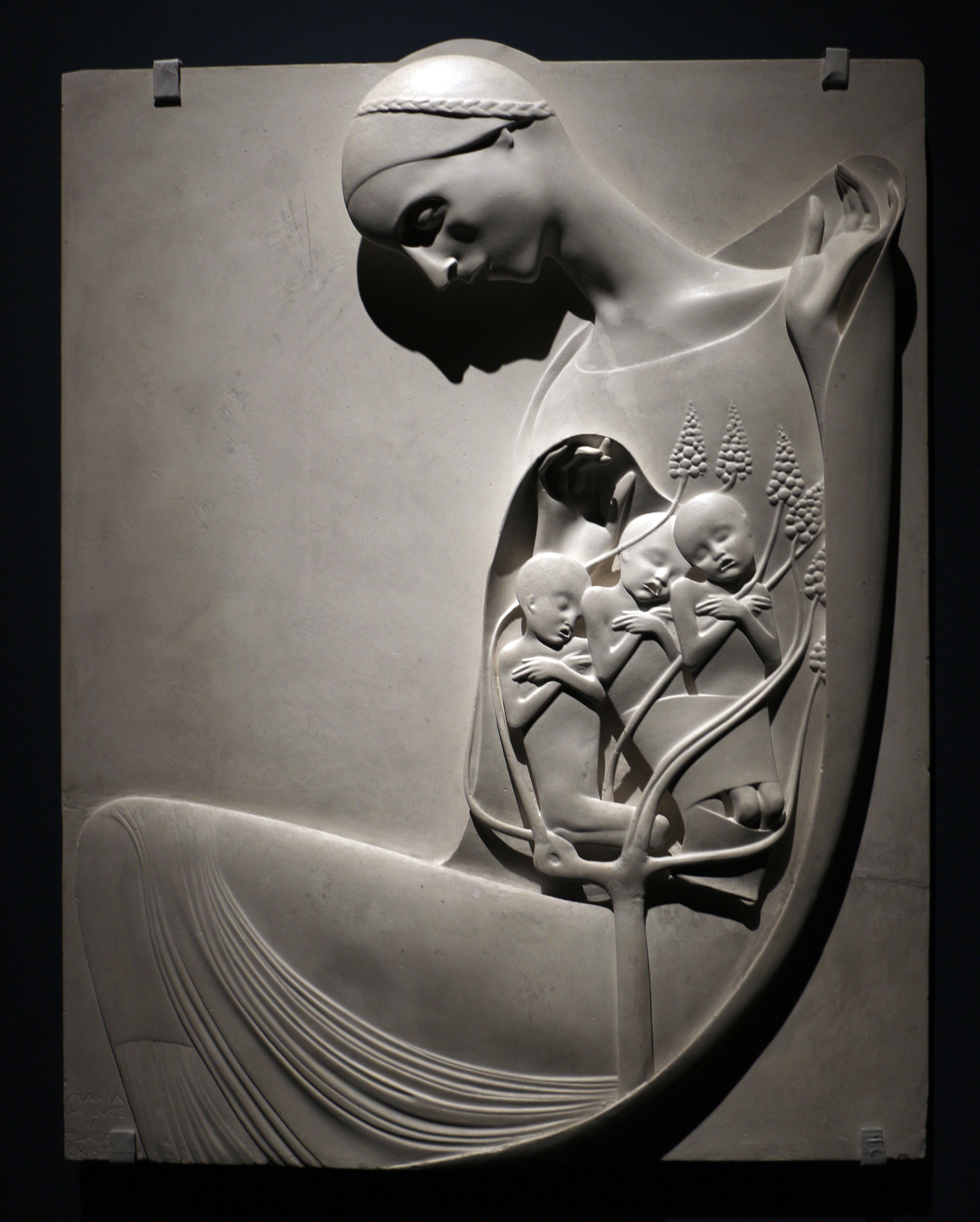 Maria dà alla Luce i Pargoli Cristiani by Adolfo Wildt